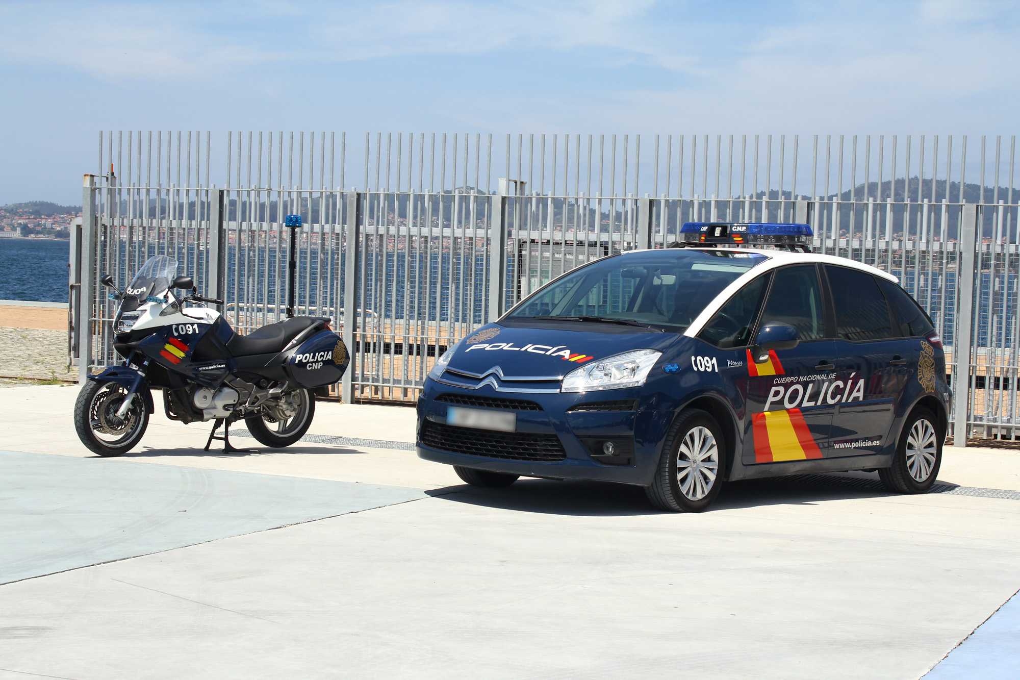 Vigo Police Conference, 22-28 June 2012 From 22th to 28th June 2012 held a Police conference in Vigo, including an exhibition of the National Corp of Police in the Maritime Station of the city. The conference began with a simulation of anti-terrorist operation in the dock of the ferry terminal. The simulation was attended by three members of the Special Operations and Safety Group (GOES) of Galicia, patrol cars, the police helicopter based at the Peinador Airport (carrying an elite shooter of the GOES to support the operation), a unit of dog handlers and agents of the Explosive Ordnance and NRBQ Group, with a deactivation vehicle.